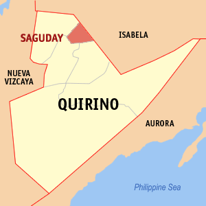 Map of Quirino showing the location of Saguday